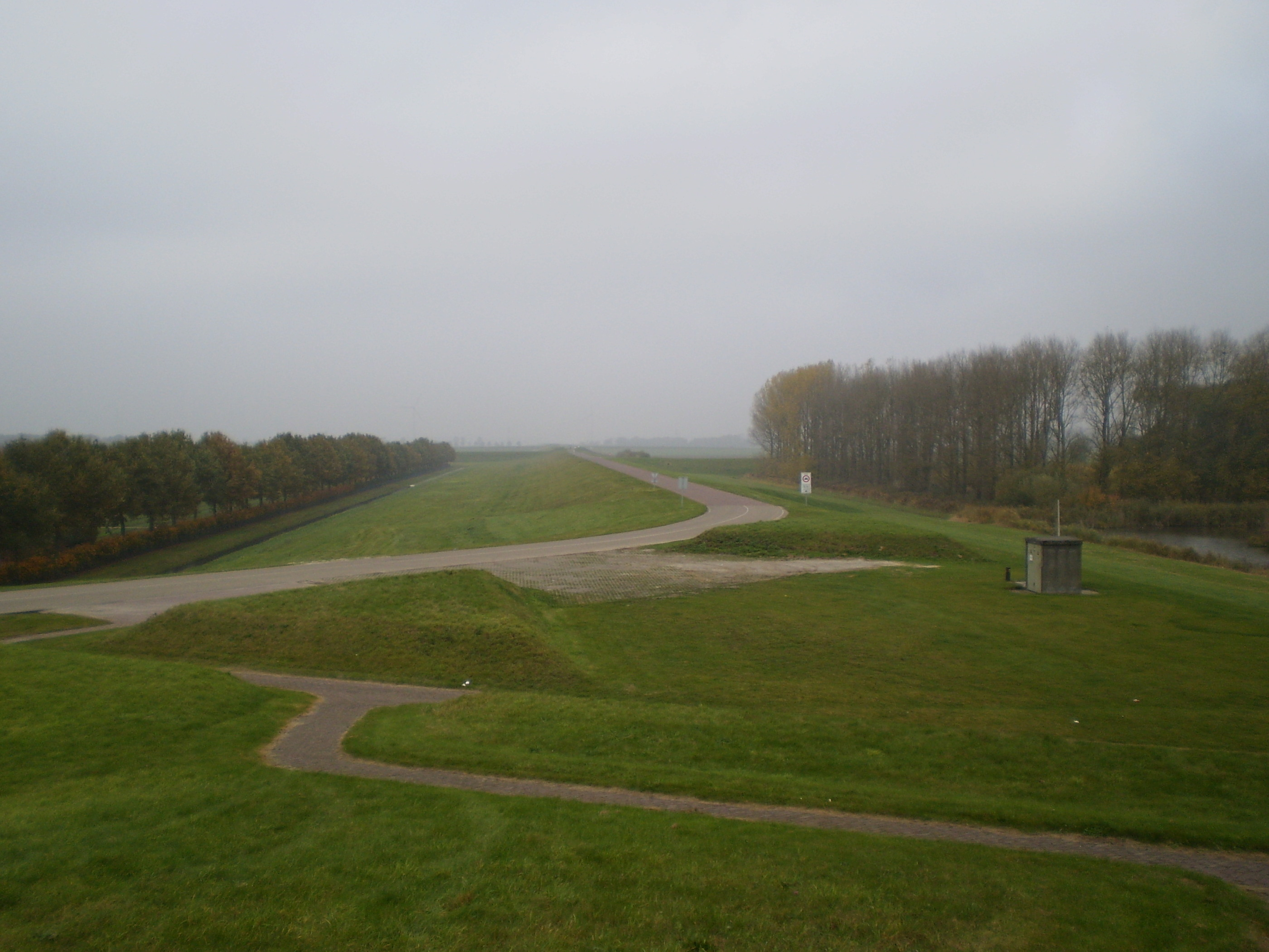 East end of the Knardijk, Flevopolder, the Netherlands